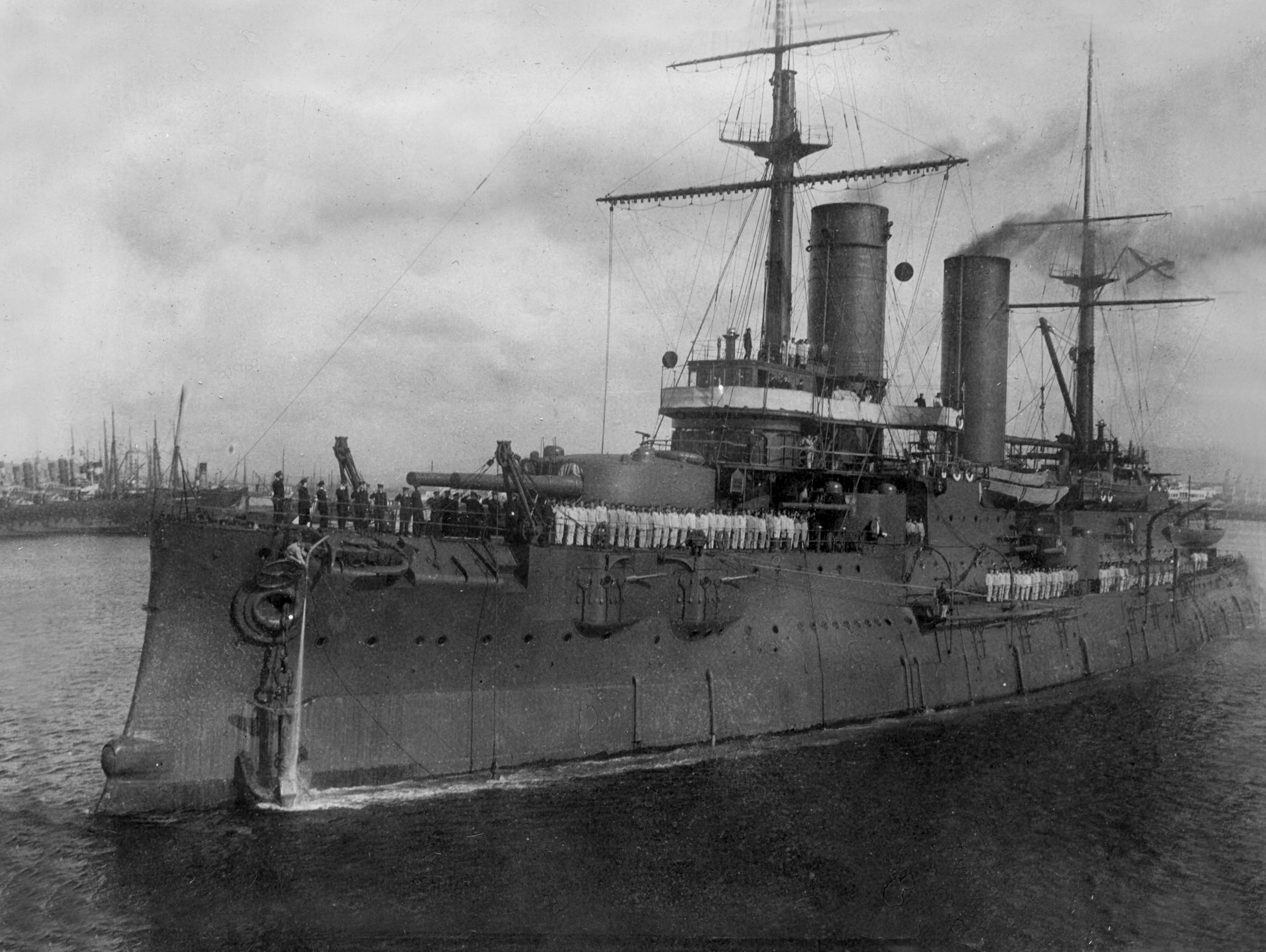 Imperial Russian battleship Slava in Piraeus, 1907.